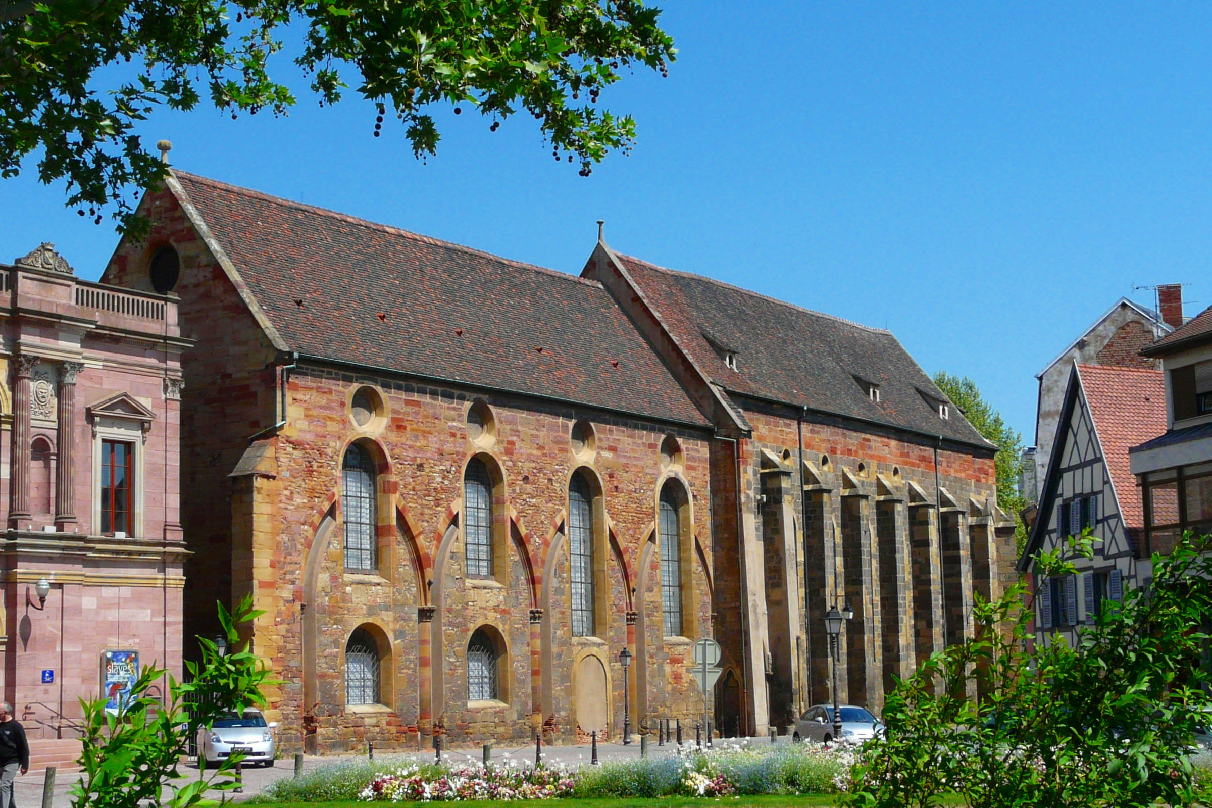 South facade of convent of Unterlinden on place des Unterlinden in Colmar (Haut-Rhin, France). .